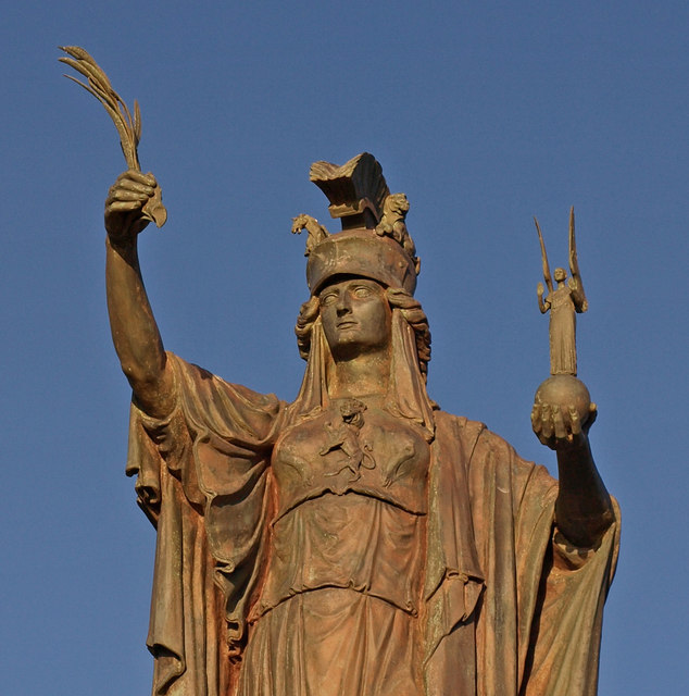 War Memorial, Troon Close up of statue on the war memorial.